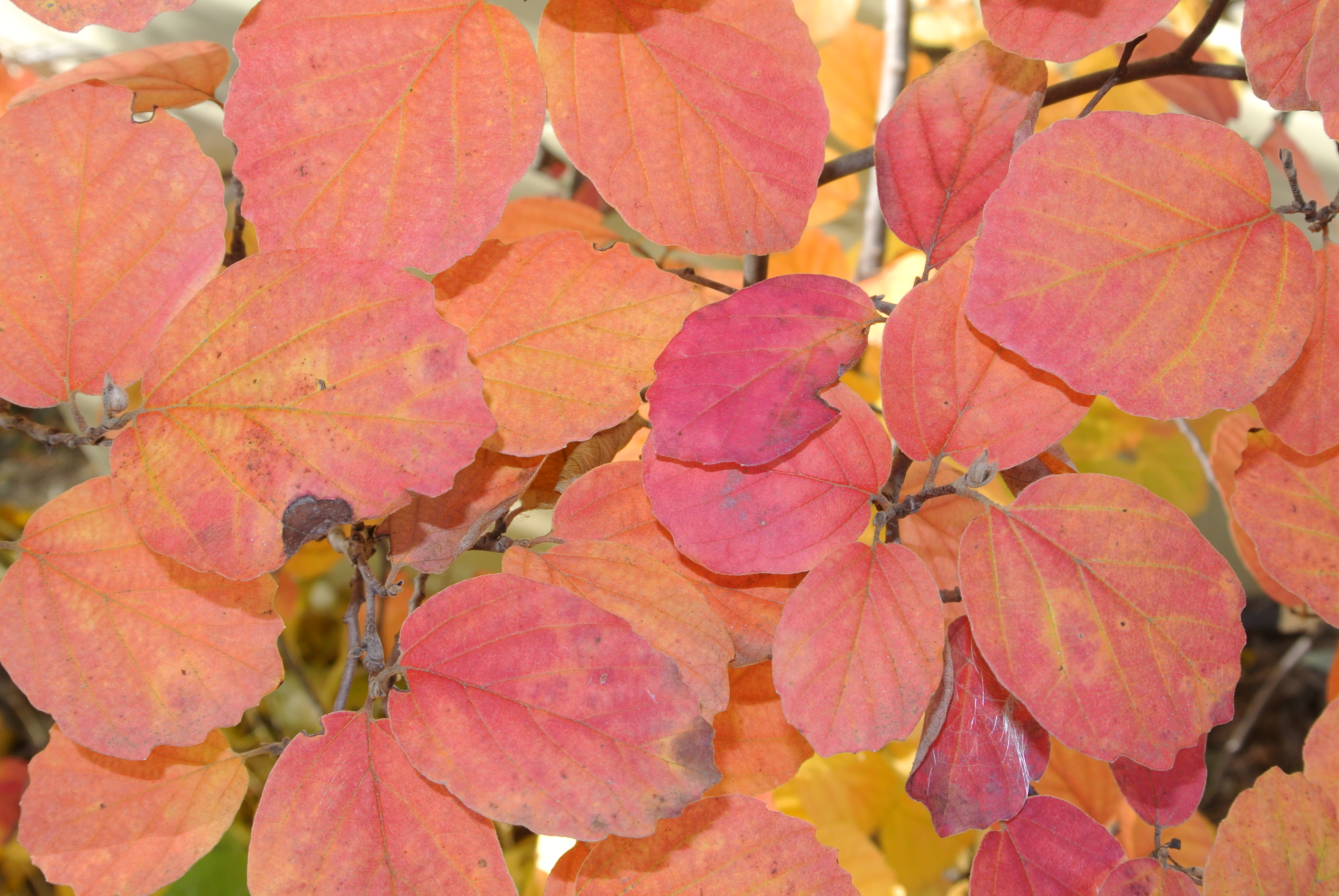 Fothergilla gardenii in the garden of botanist Robert R. Kowal, Madison, Wisconsin